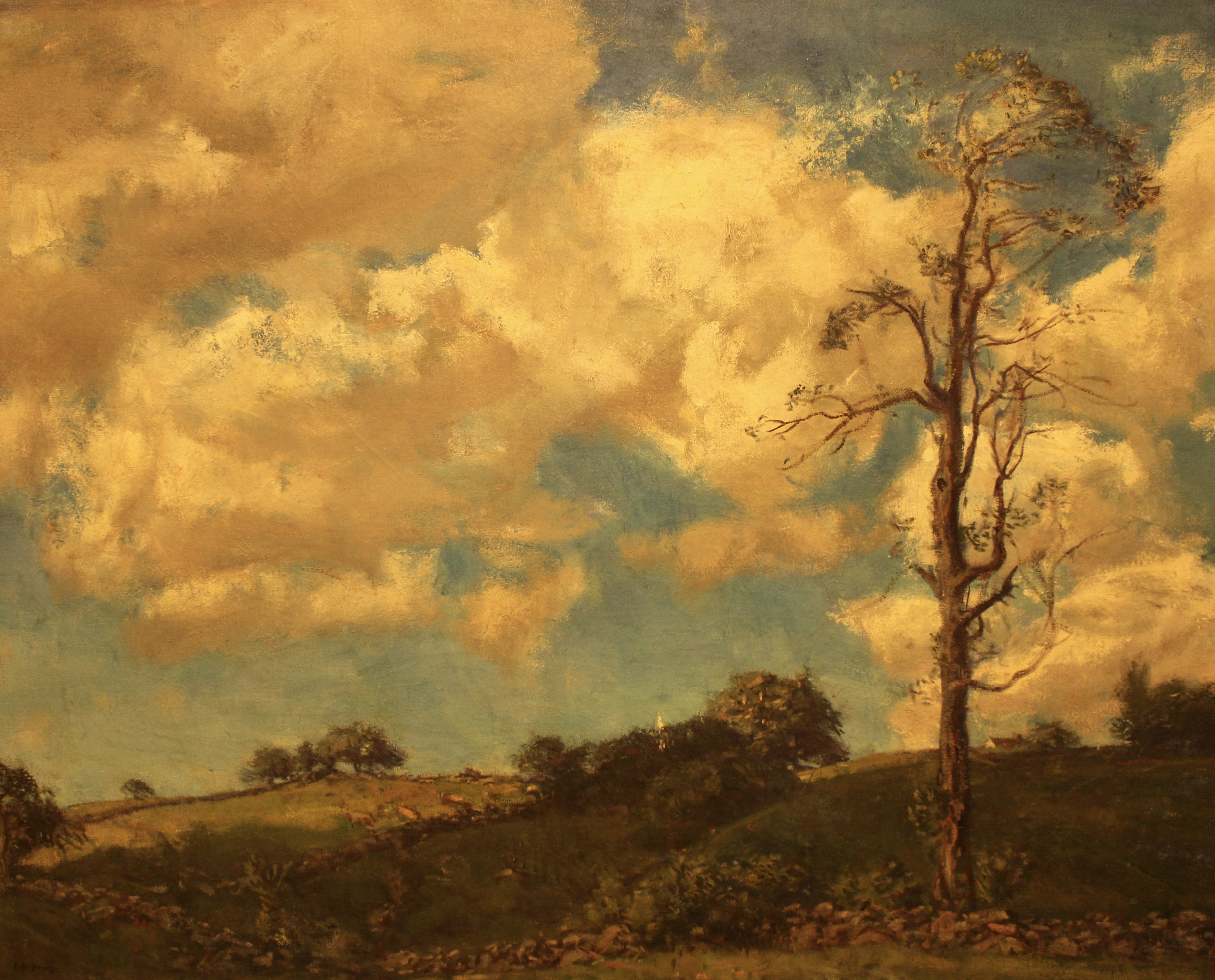 Photo of Summer Clouds by Charles Harold Davis from Widener University Art Museum